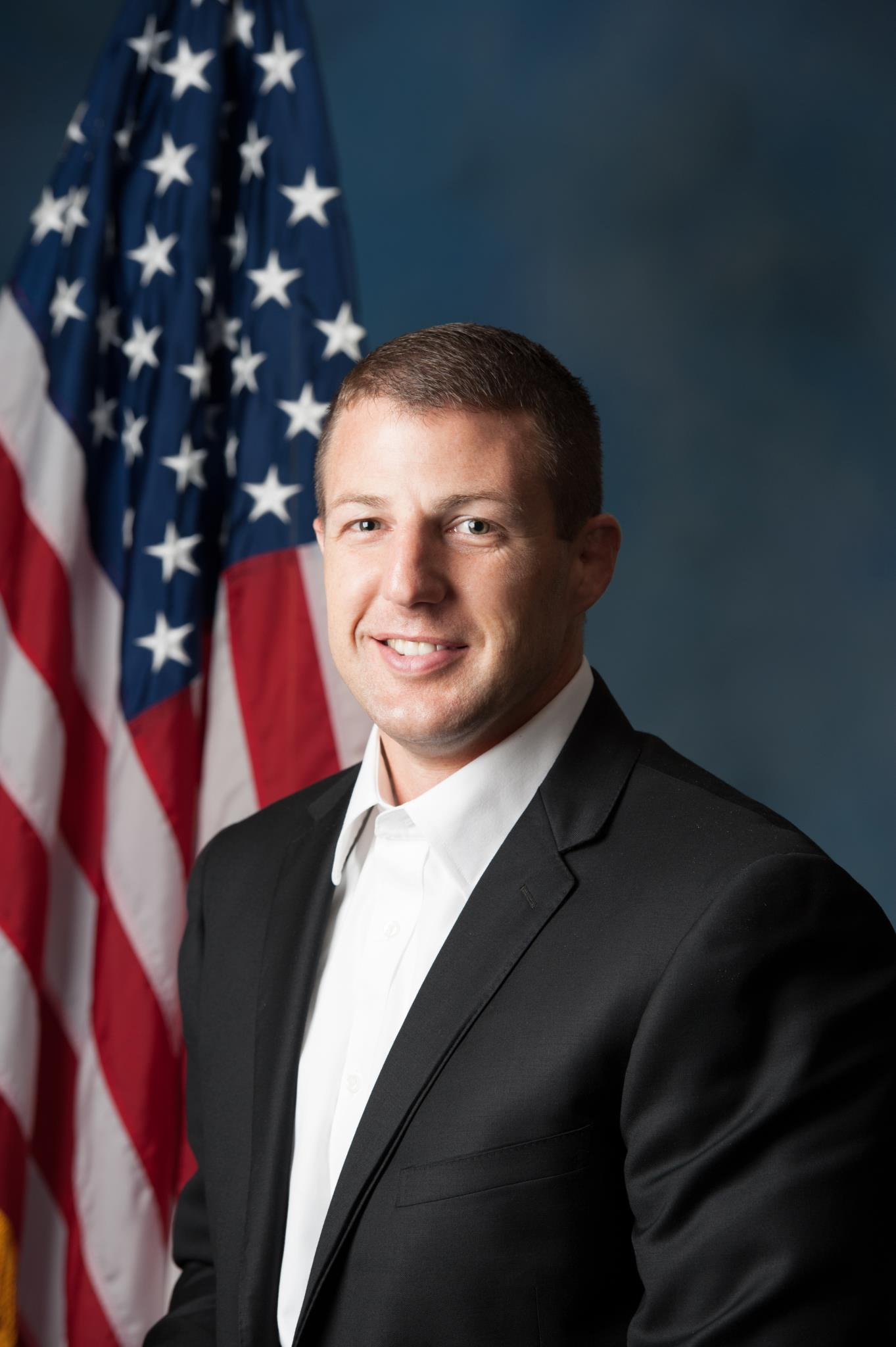 Official portrait of Congressman Markwayne Mullin (R-OK).